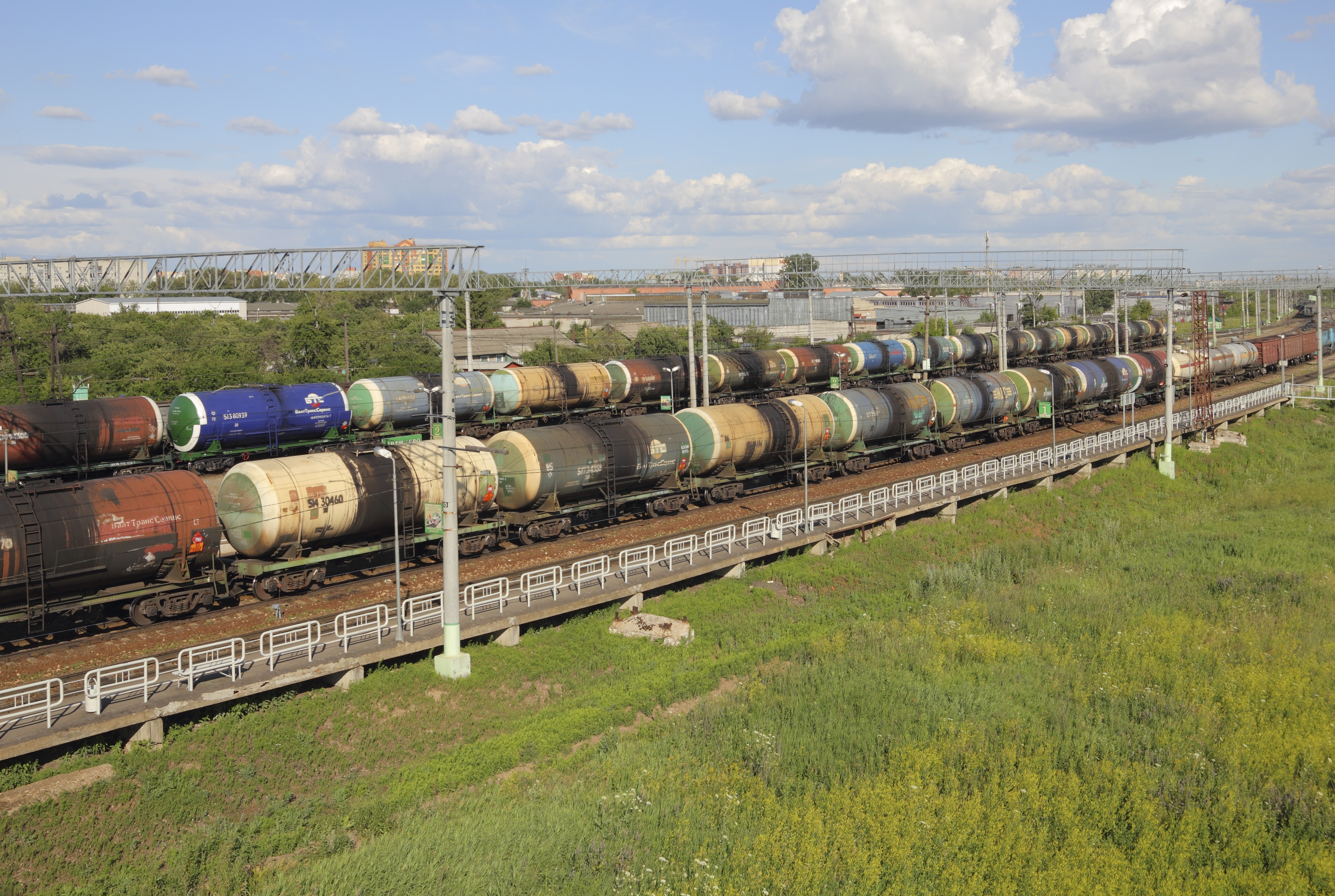 Dyagilevo railway station in Ryazan, Ryazan Oblast, Russia